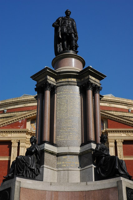 Statue of Prince Consort Albert (1863) by Joseph Durham. The statue is part of the Memorial to the Exhibition of 1851, which stands next to Royal Albert Hall. The statues are copper electrotypes, which were an alternative to bronze castings in the late 19th century.